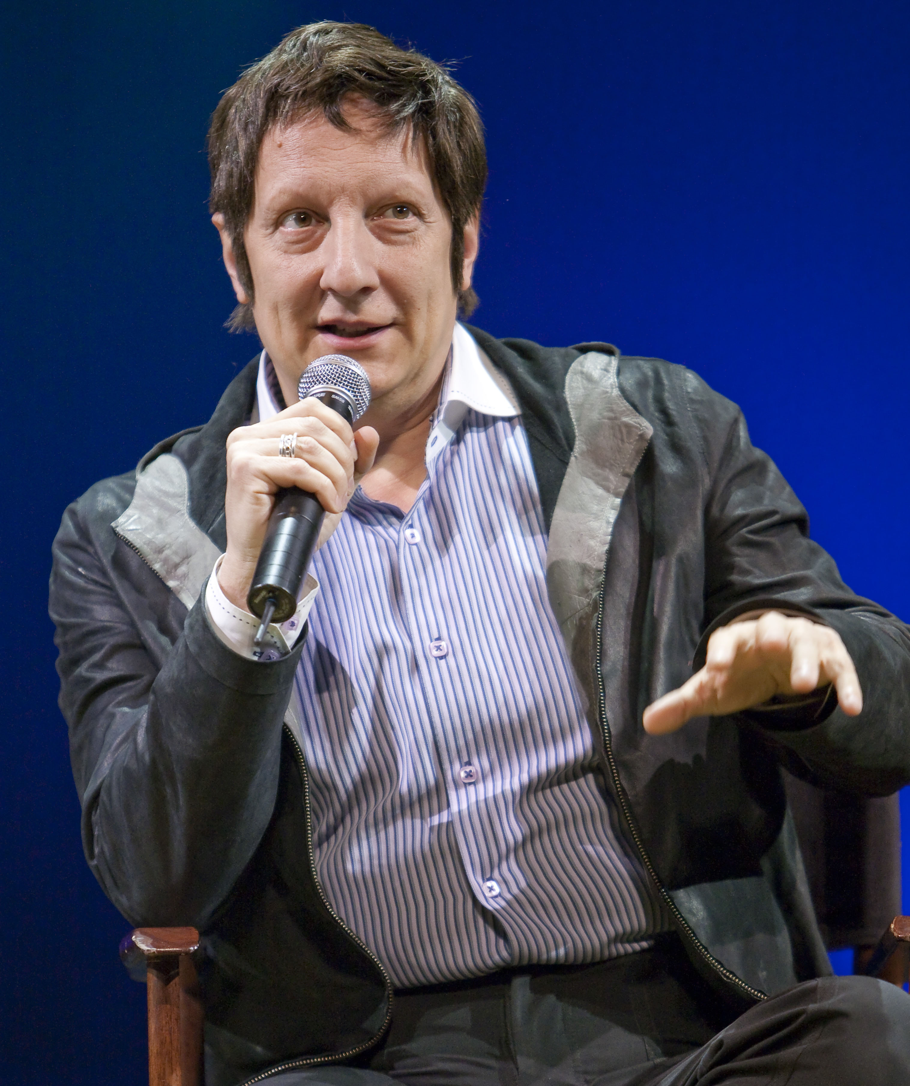 Robert Lepage, playwright, actor, film director, and stage director from Québec City, Québec, and one of Canada's most honoured theatre artists at the European première of TOTEM in Amsterdam